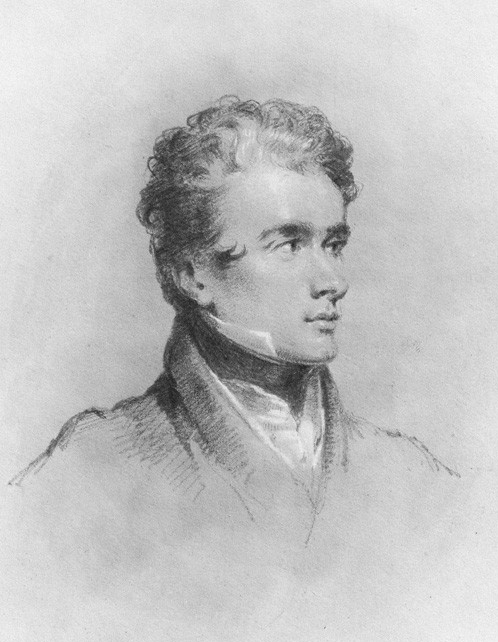 Alaric Alexander Watts (1797–1864), an English poet and journalist.